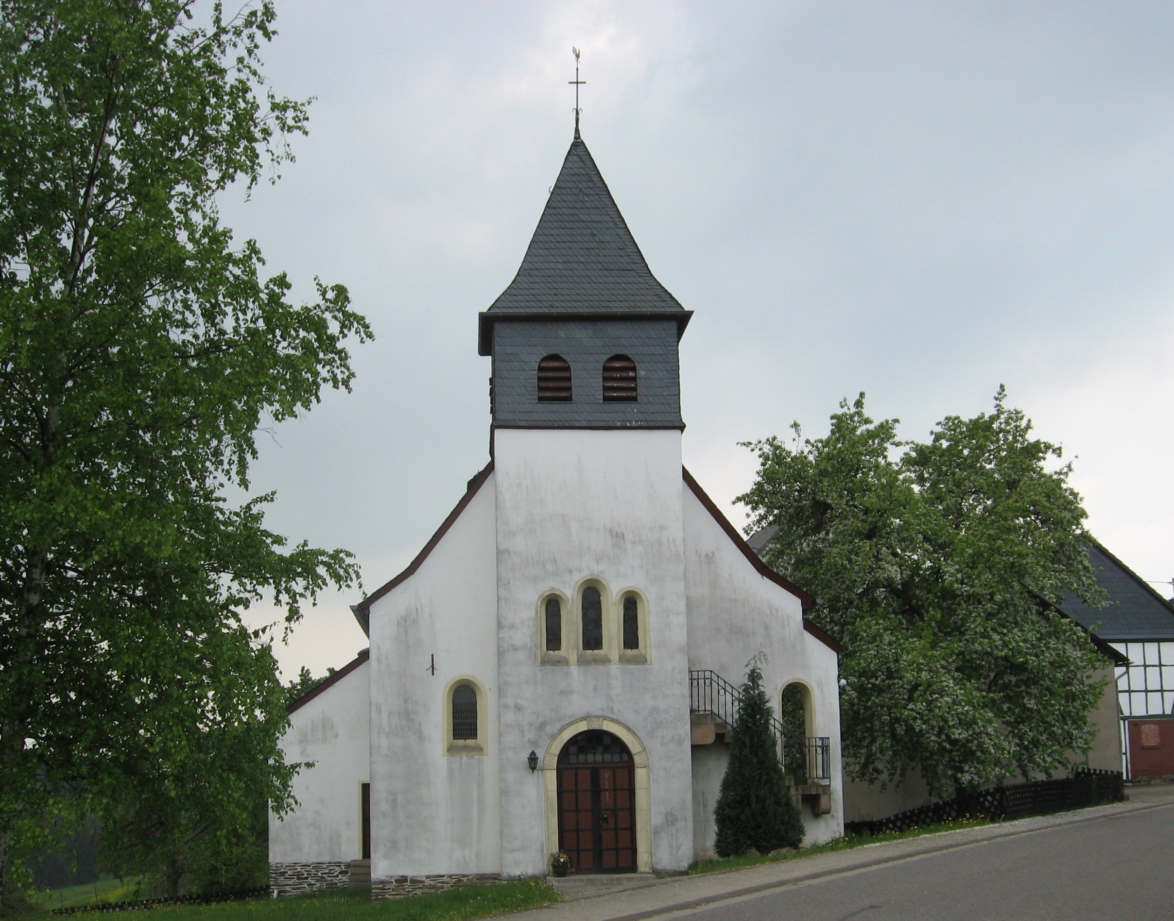 Chapel of the village Lindenschied in the Hunsrück landscape, Germany.